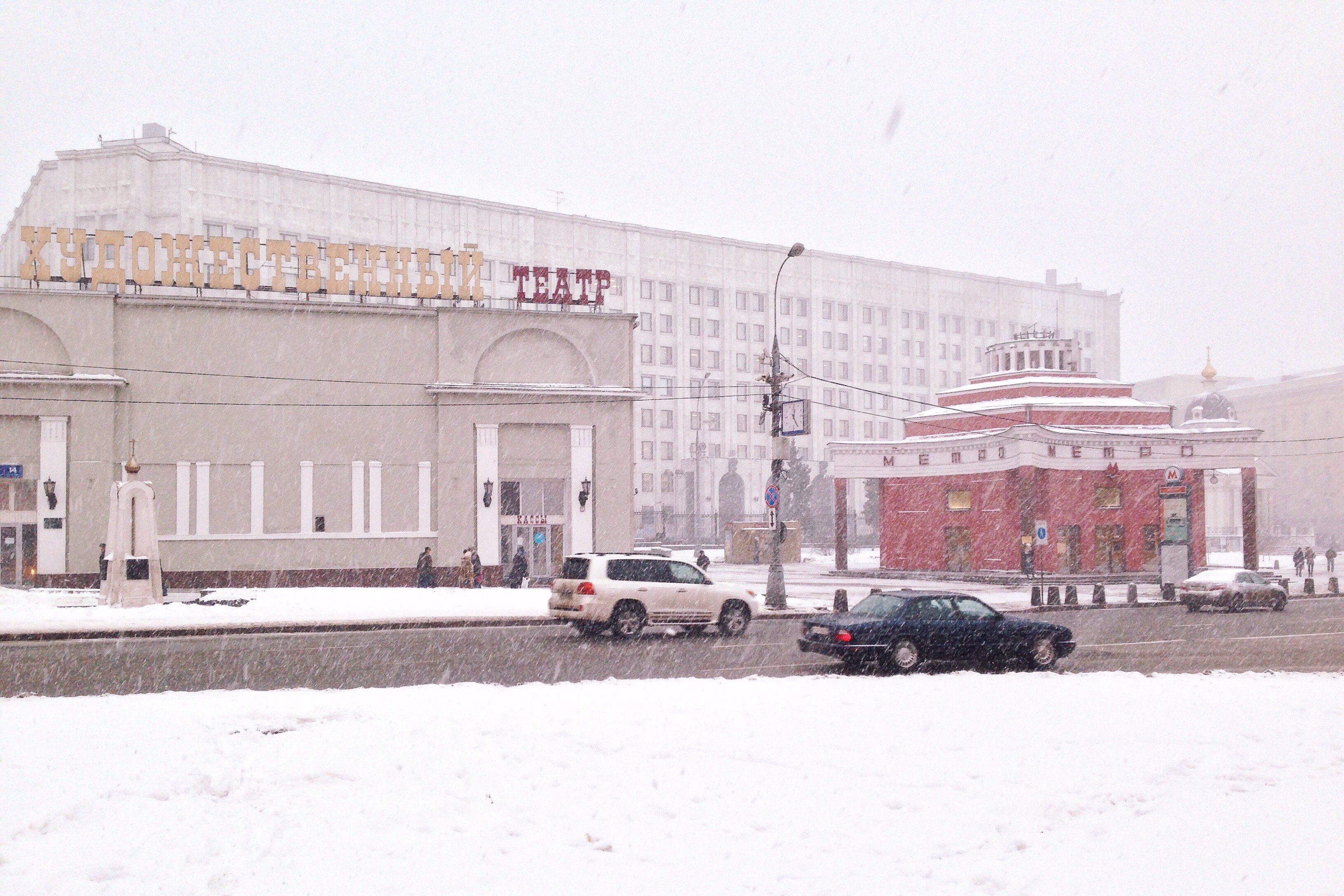 Processed with VSCOcam with k2 preset